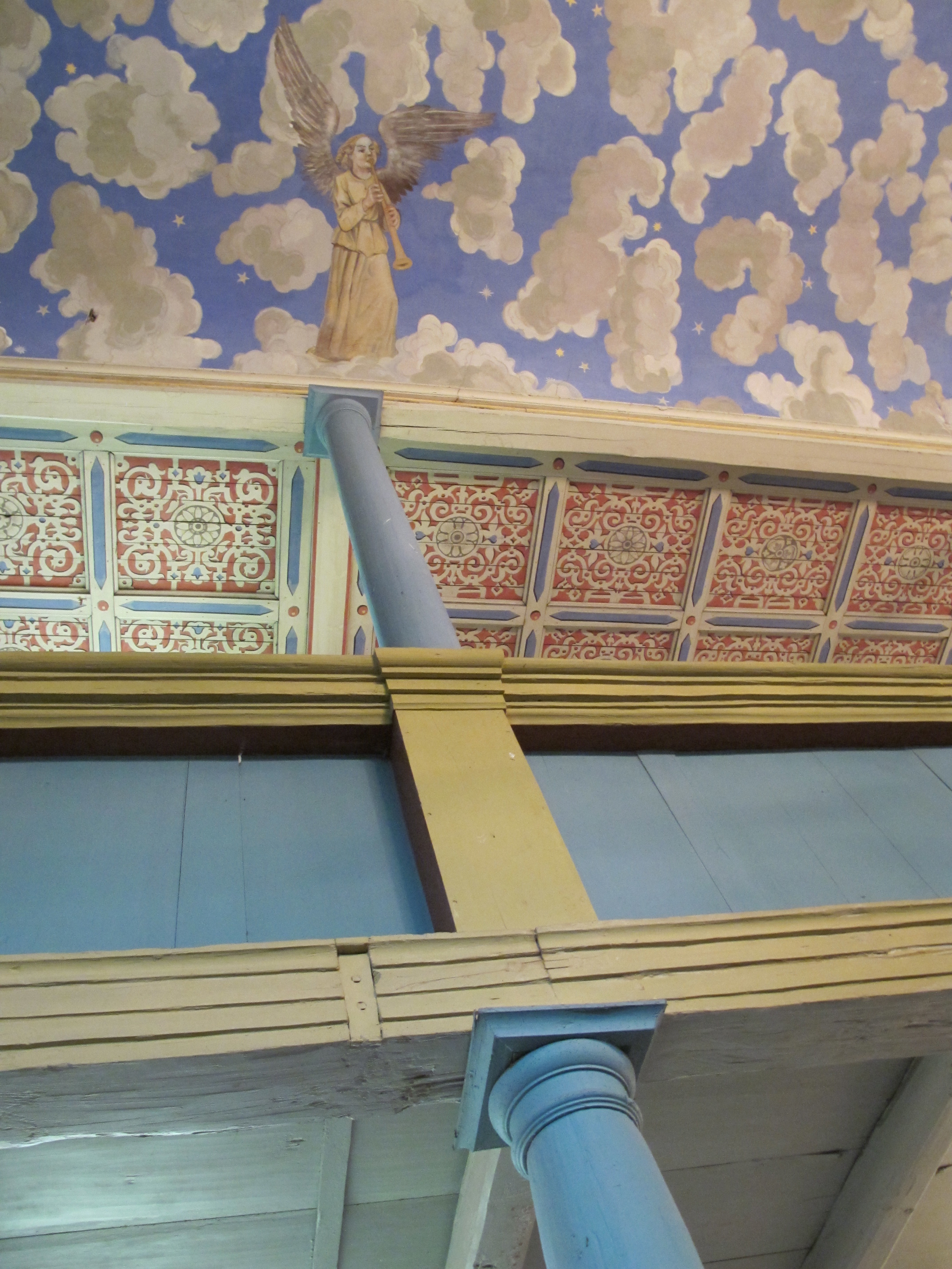 Klosterkirche Altfriedland, Germany, Interior columns of matronium (south side) and painted ceiling